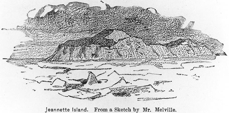 Photo #: NH 92127 Jeannette Arctic exploring expedition, 1879–1881 Engraving after a sketch by George W. Melville, depicting "Jeannette Island", discovered by USS Jeannette as she drifted icebound north of Siberia in May 1881. Position was about 159E, 76 40'N. Copied from "The Voyage of the Jeannette ...", Volume II, page 550, edited by Emma DeLong, published in 1884. U.S. Naval Historical Center Photograph. Online Image: 101KB; 740 x 385 pixels